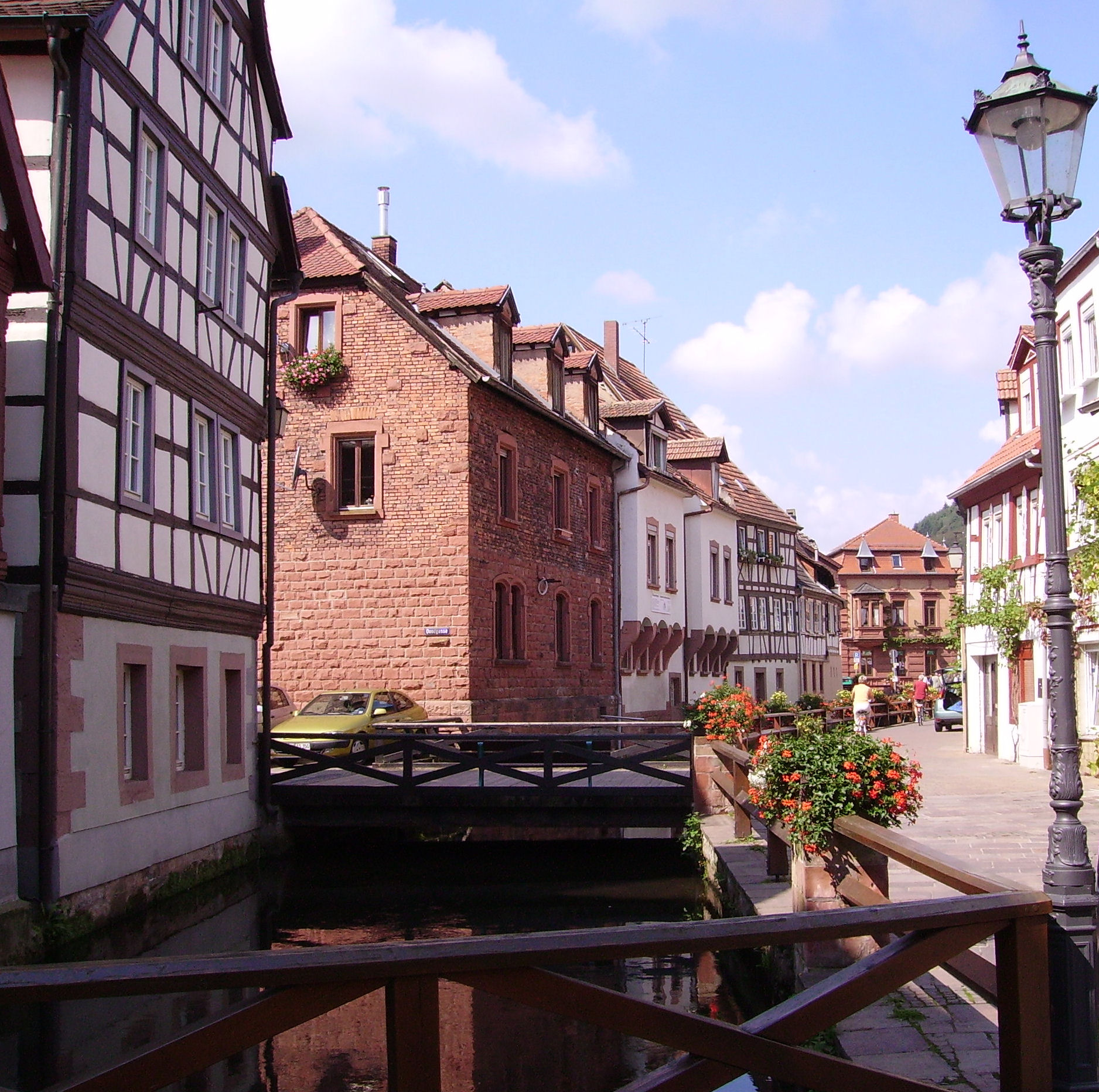 view of Annweiler, Germany